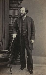 Sir Herbert Benjamin Edwardes (1819-1868) by William Edward Kilburn. Albumen photographic print, carte-de-visite, 1860s. 3 1/4 in. x 2 1/8 in. (82 mm x 55 mm). National Portrait Gallery, London (NPG x45342)